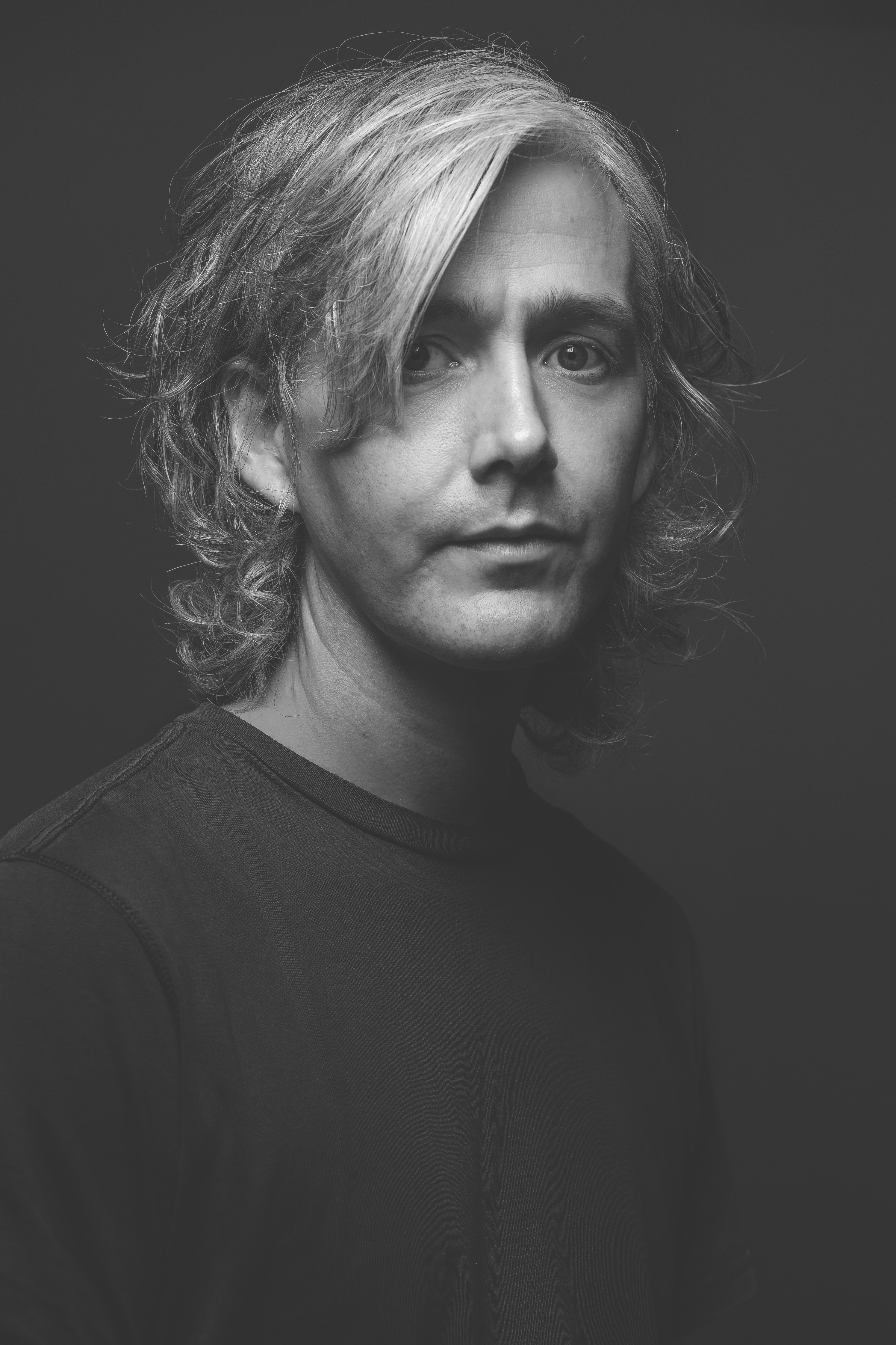 Scottish Musician Ian Morrision